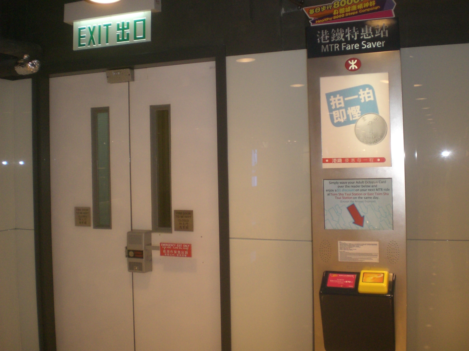 尖沙咀星光行 港鐵特惠站